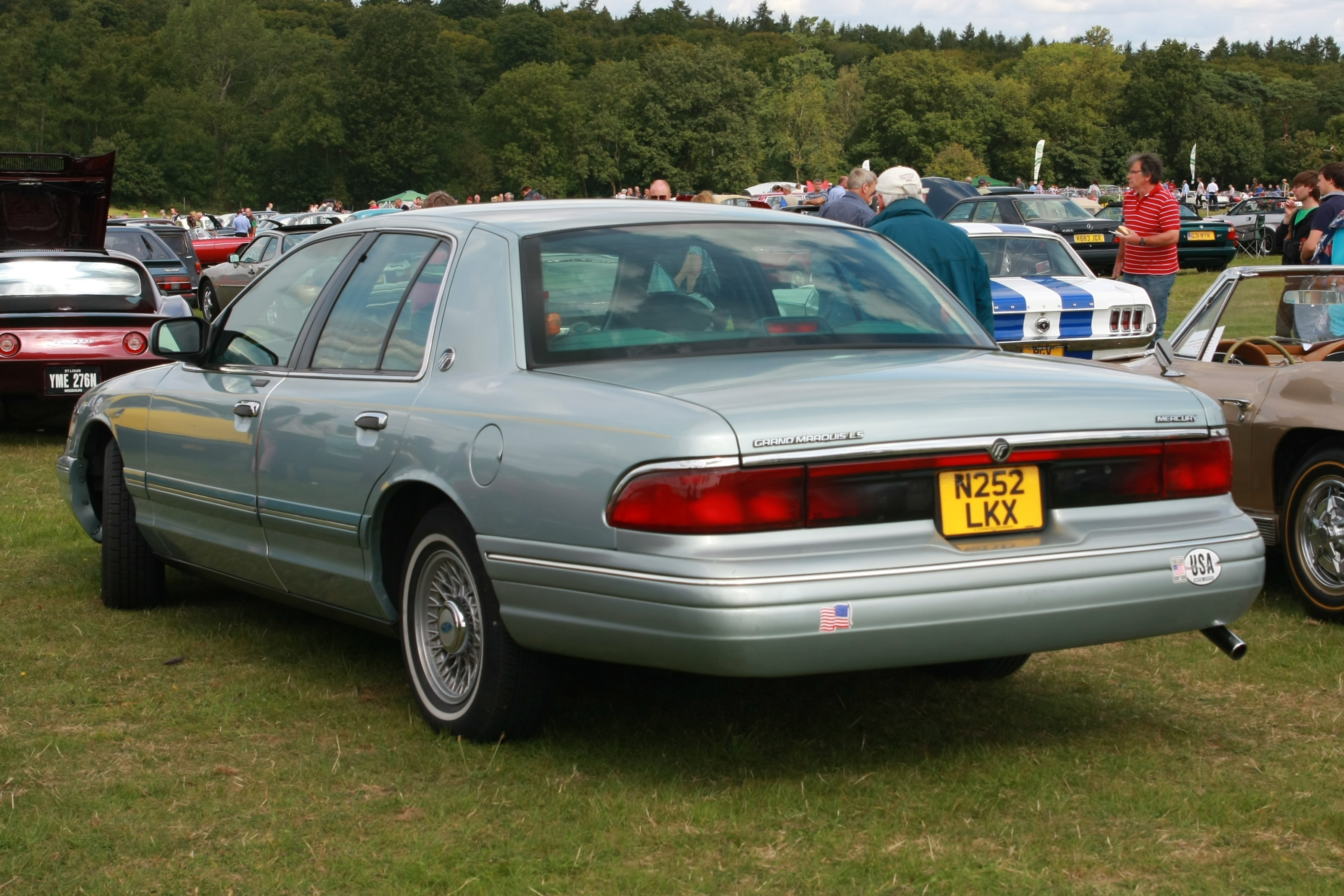 Mercury Grand Marquis registered ca 1994